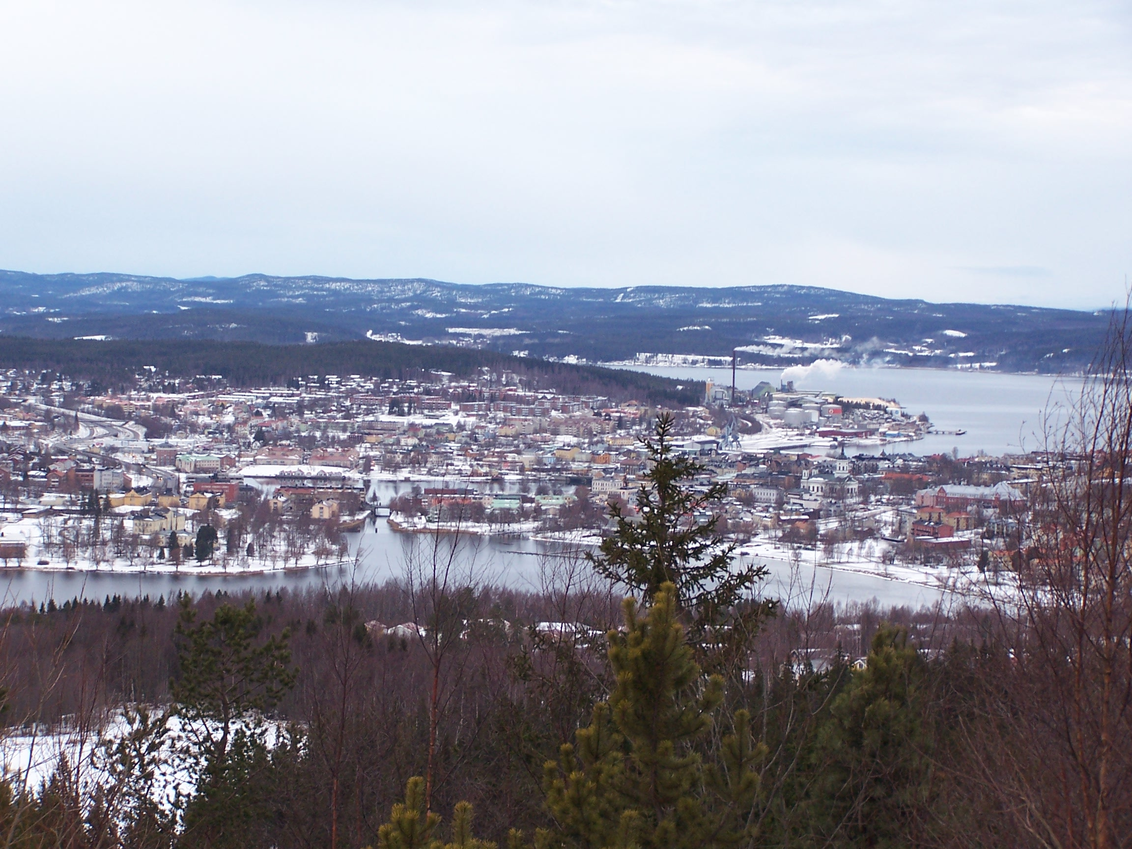 Härnösand, Sweden - view from Vårdkasen